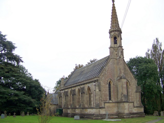 Chantry Church Chantry church is built of Doulting limestone, finely carved, both inside and out in the decorated style of the Gothic revival. It has been described as a little gem and inside is light and airy. It consists of a nave, chancel, porch and vestry and has remained virtually unchanged since it was first built. The foundation stone was laid in 1843 and the church was consecrated in 1846.